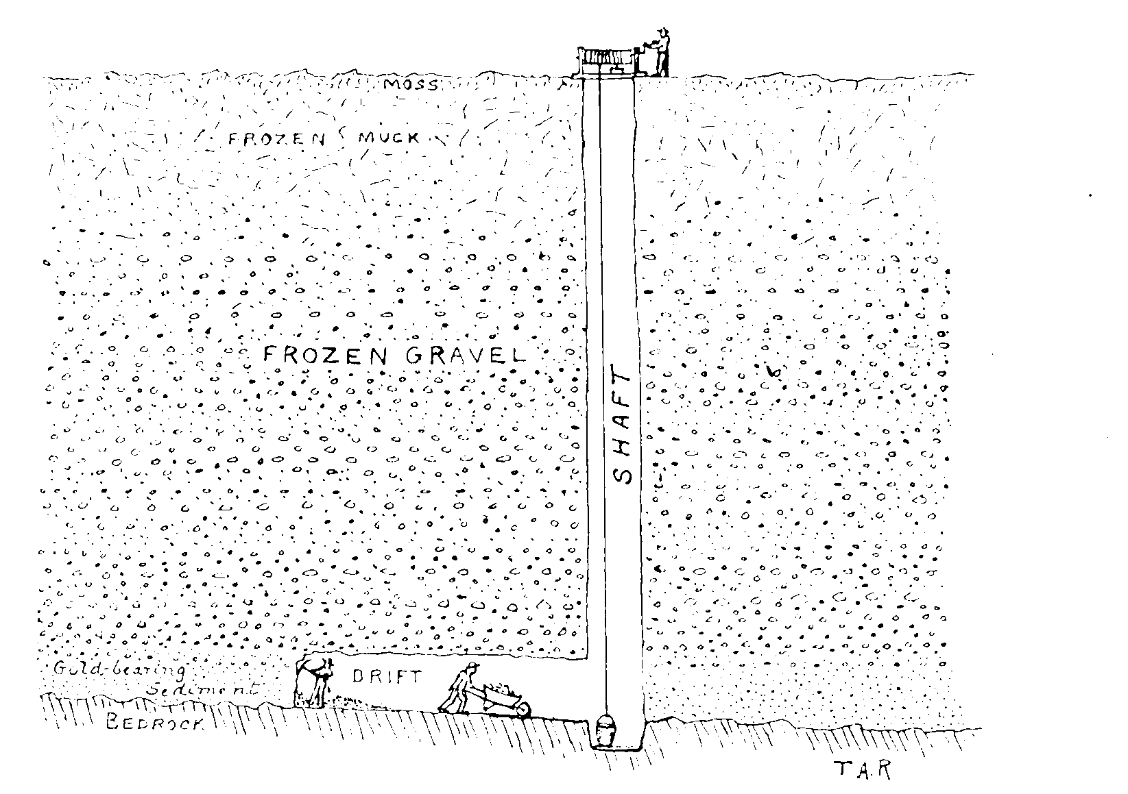 Diagram of a drift mine in frozen ground, as found in Alaska or Yukon in the early 20th century. The notation TAR is presumably the artist's initials (Thomas Arthur Rickard)